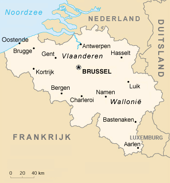 A map of Belgium in Dutch.